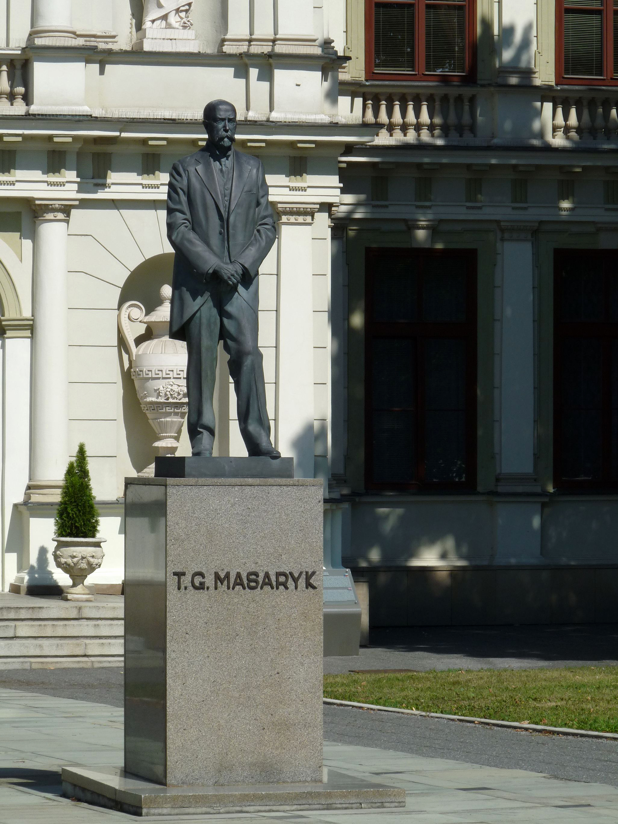 Statue of Tomáš Garrigue Masaryk in the town of Kroměříž, Zlín Region, Czech Republic.